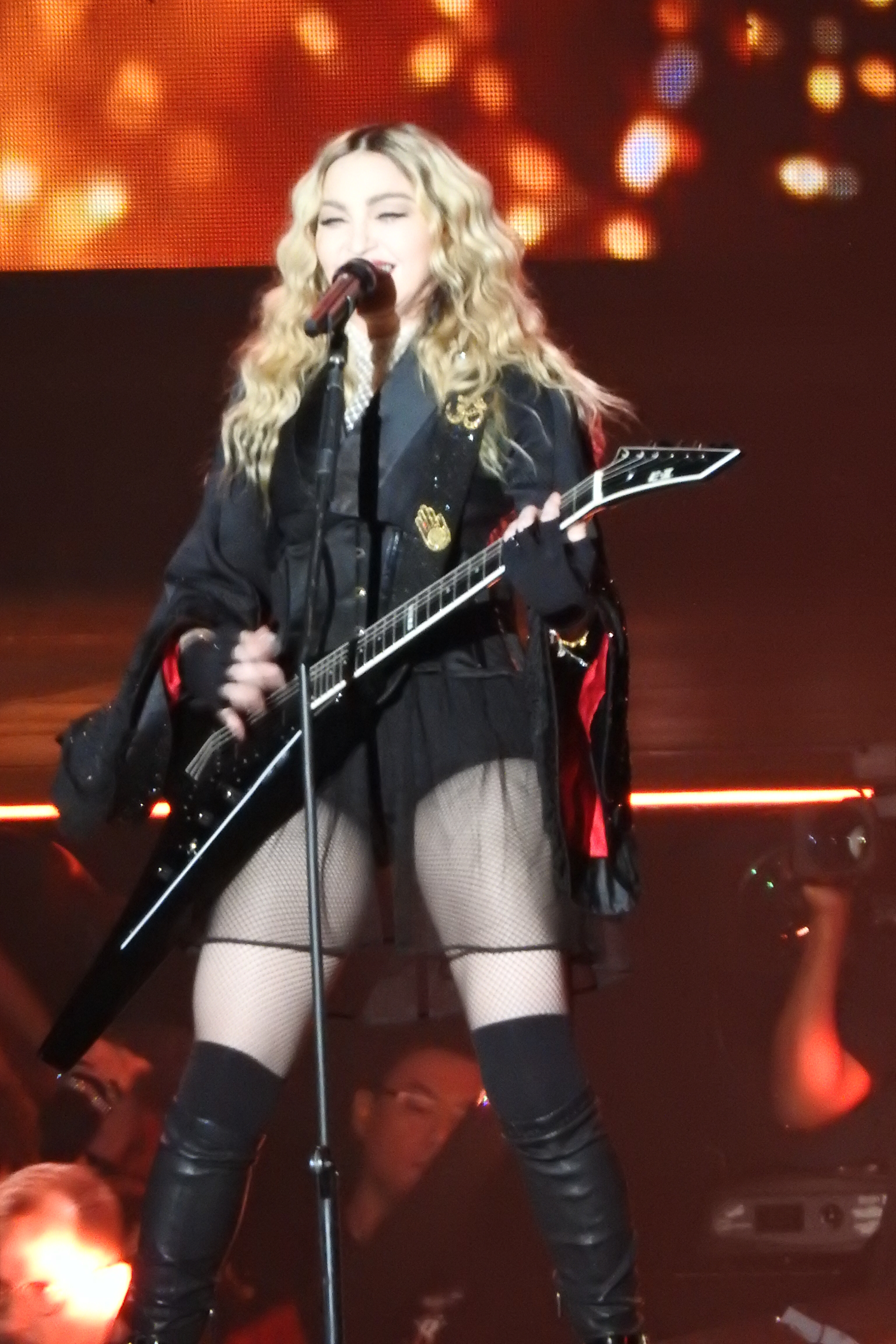 7179-Madonna-Rebel-Heart-Tour